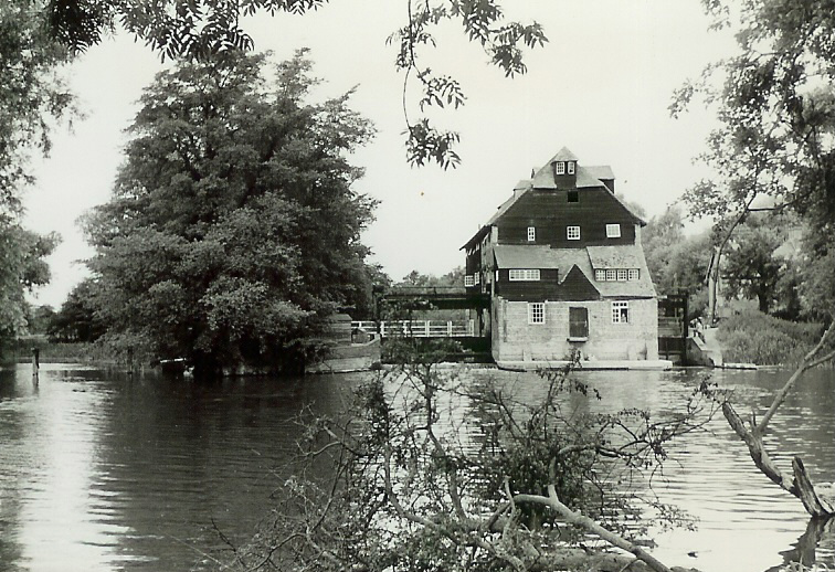 Houghton Mill, Huntingdonshire, England in 1966. At the time the mill building was a youth hostel.